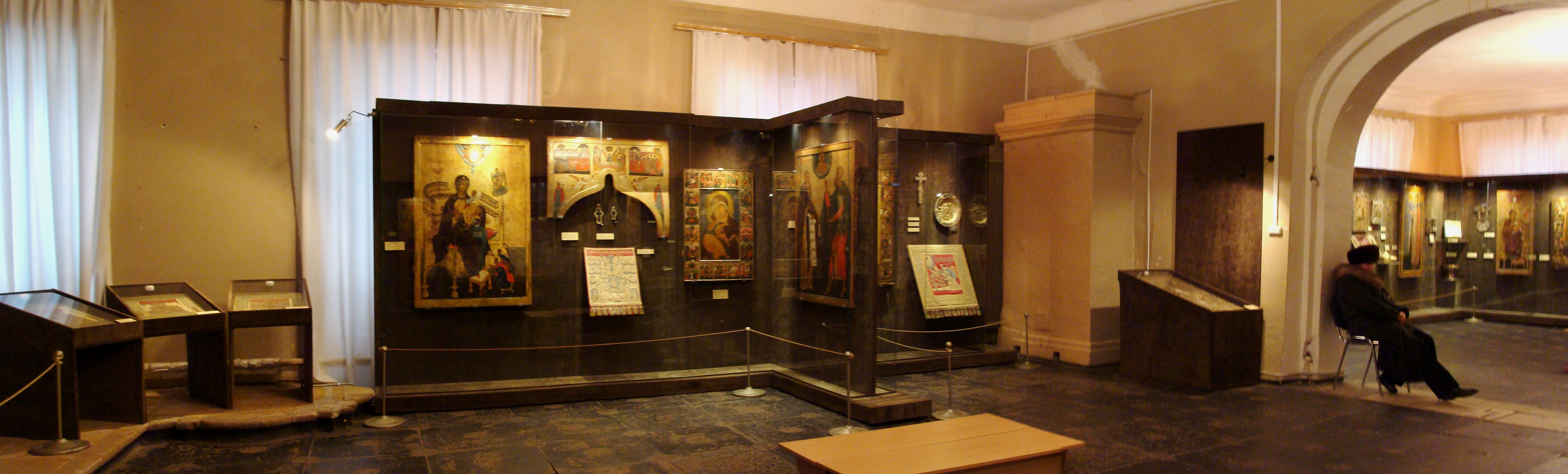 Church of the Annunciation (Solvychegodsk)